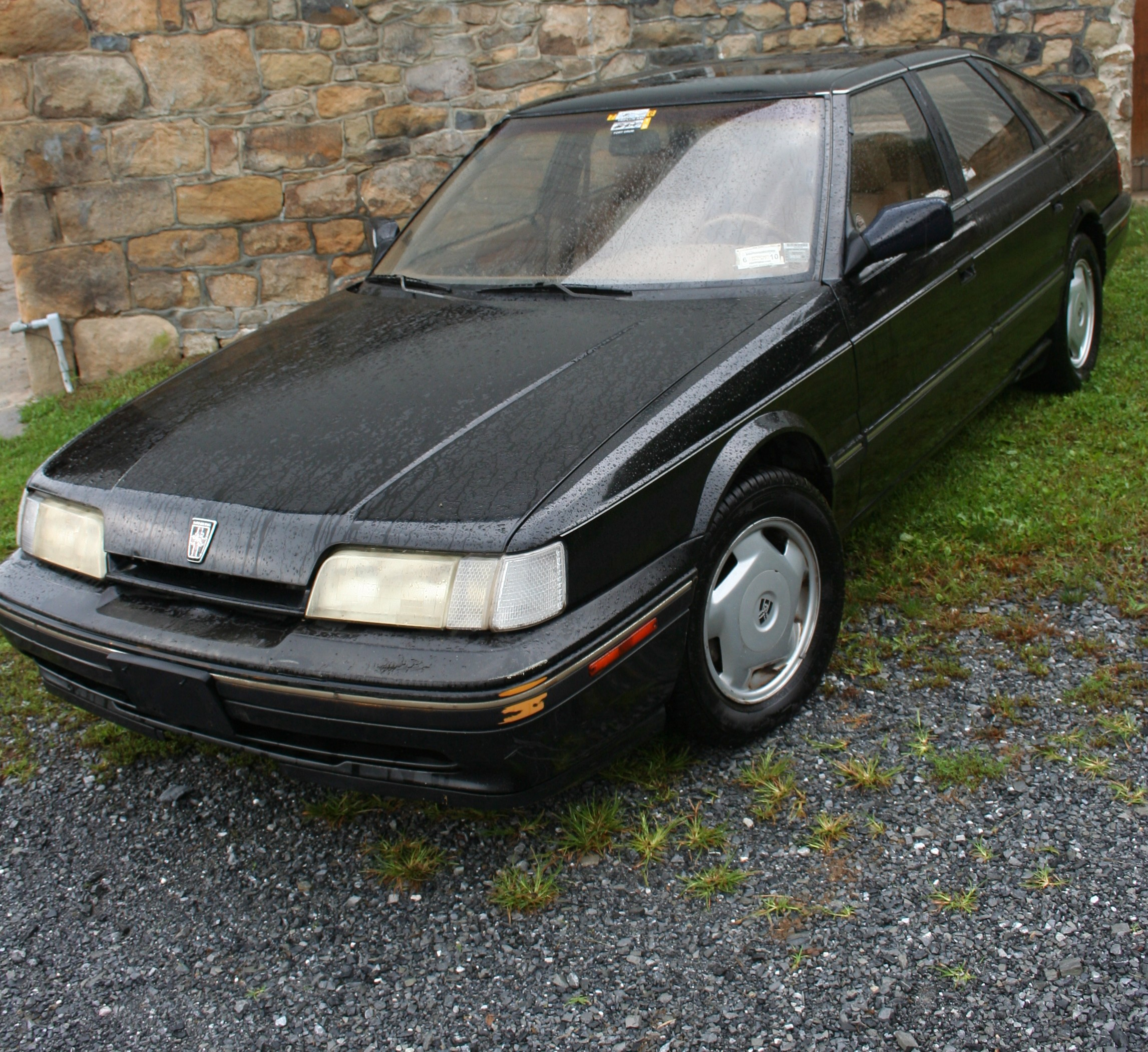 Typical example of an 89 Sterling 827SLi which is a hatchback with a 2.7 V6 engine.